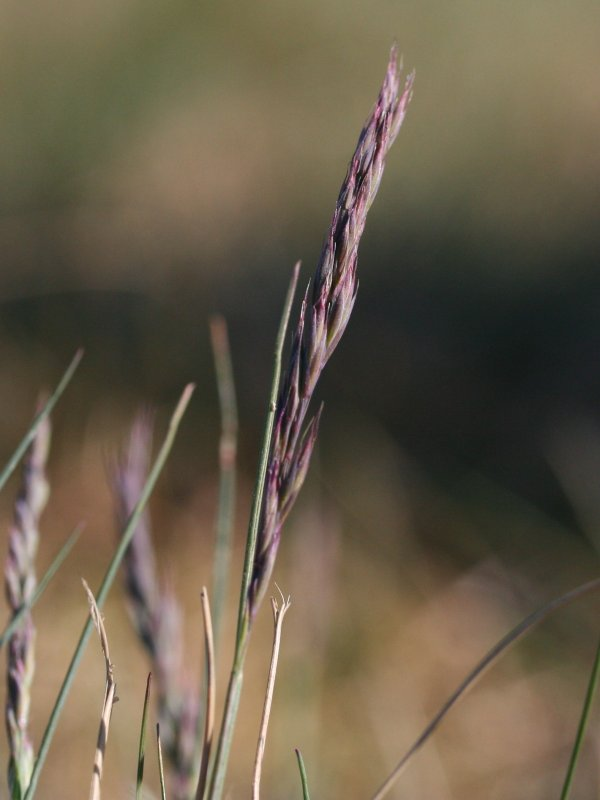 Raublatt-Schwingel (Festuca brevipila)